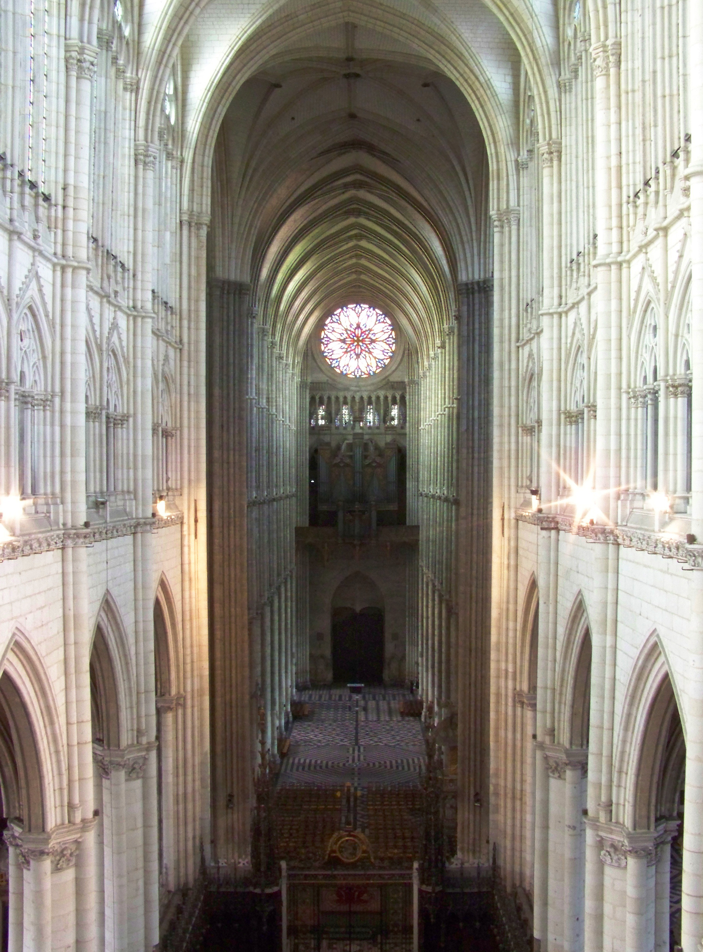 Cathedral Notre-Dame of Amiens, France, nave seen from the triforium